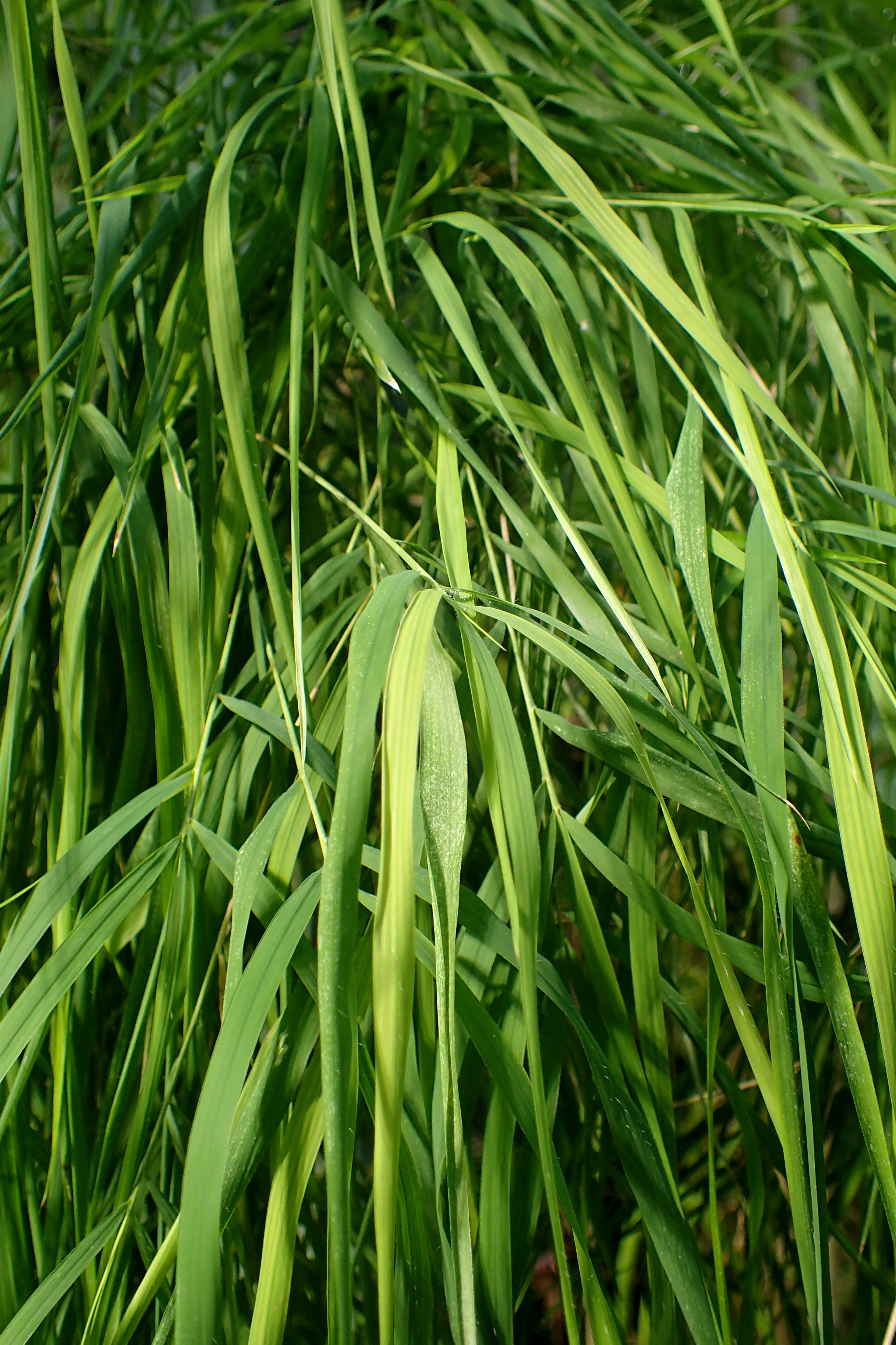 Otatea acuminata in Lincoln Park Conservatory